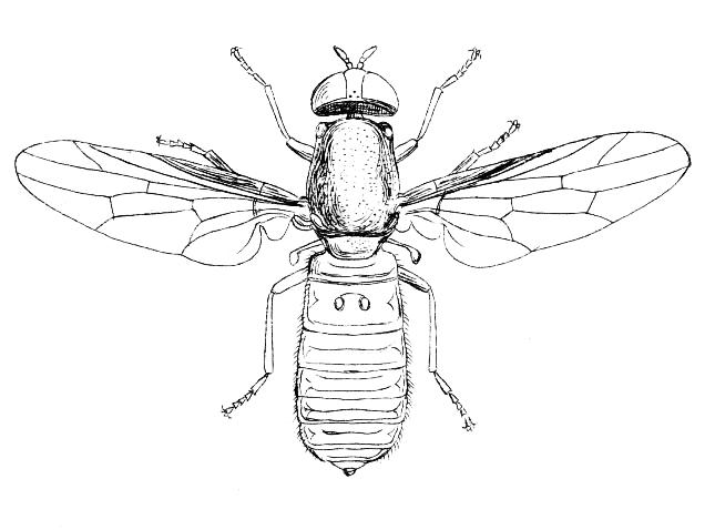 Scenopinus illustration from Insecta Britannica Diptera